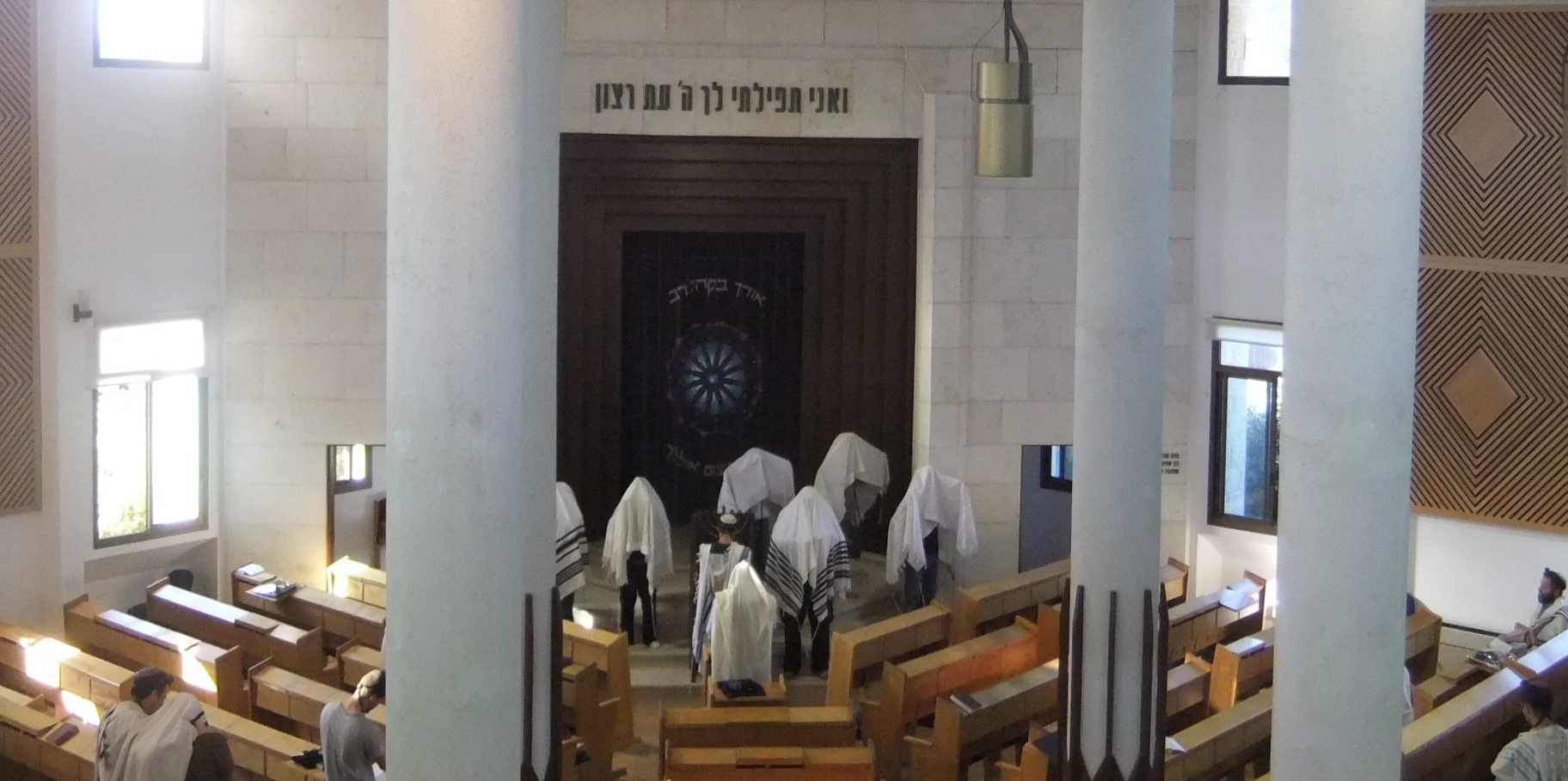 Birkat Kohanim in Ofra